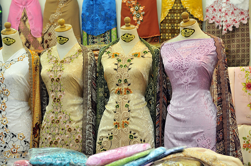 Kebaya